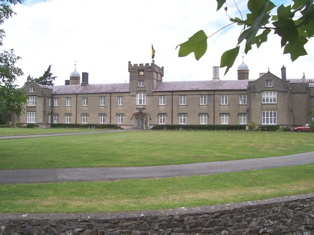 Lampeter University. Started out in 1822 as St David's College, founded by Bishop Thomas Burgess. After the ancient universities of Oxford and Cambridge and Scotland, it is the oldest university institution in Britain, receiving its first charter in 1828. In 1995 became University of Wales, Lampeter.